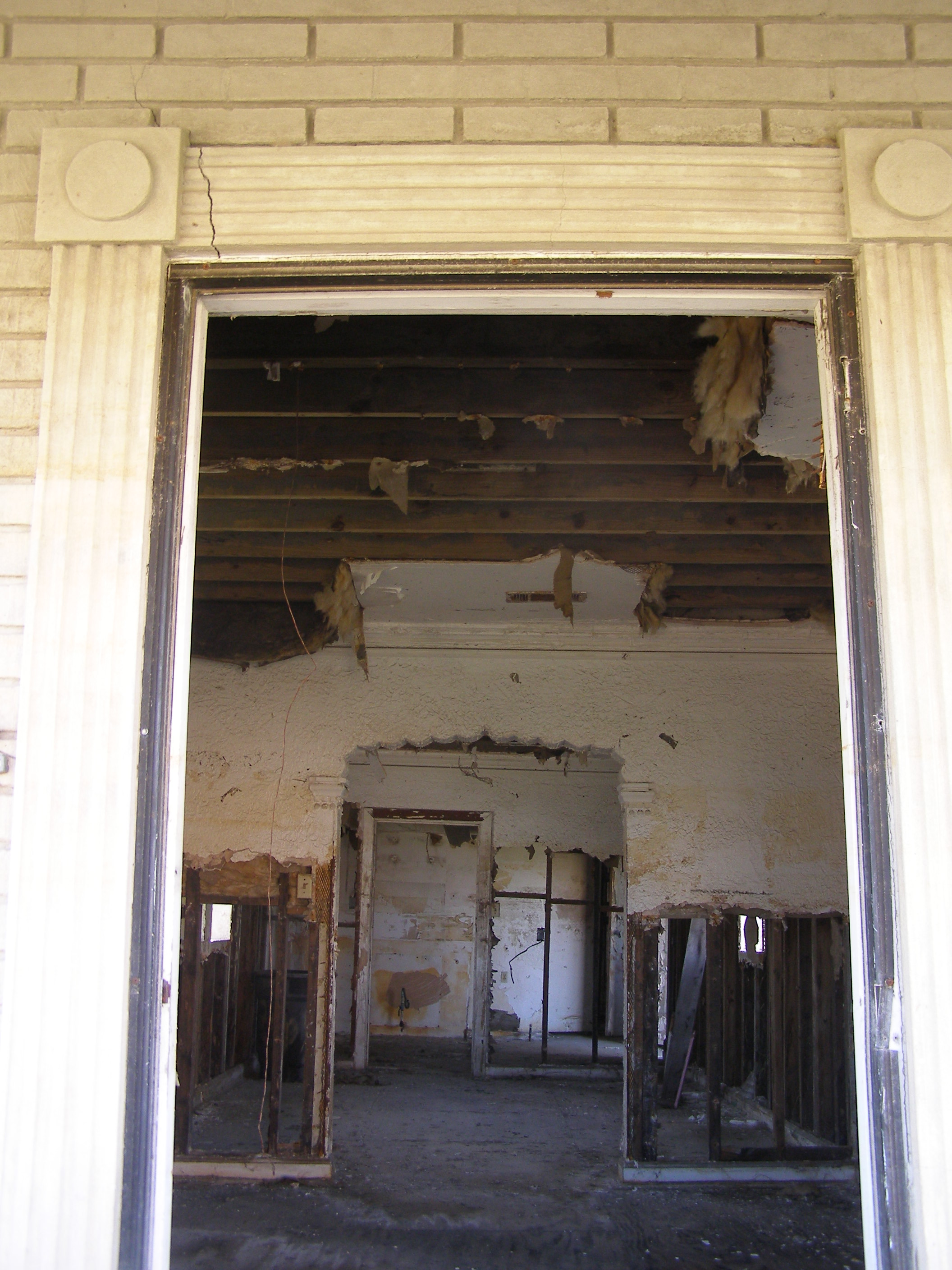 Lower 9th Ward, New Orleans. Interior view of house devastated by the Hurricane Katrina levee failure disaster. Former residence of painter/recording artist/evangelist Sister Gertrude Morgan.